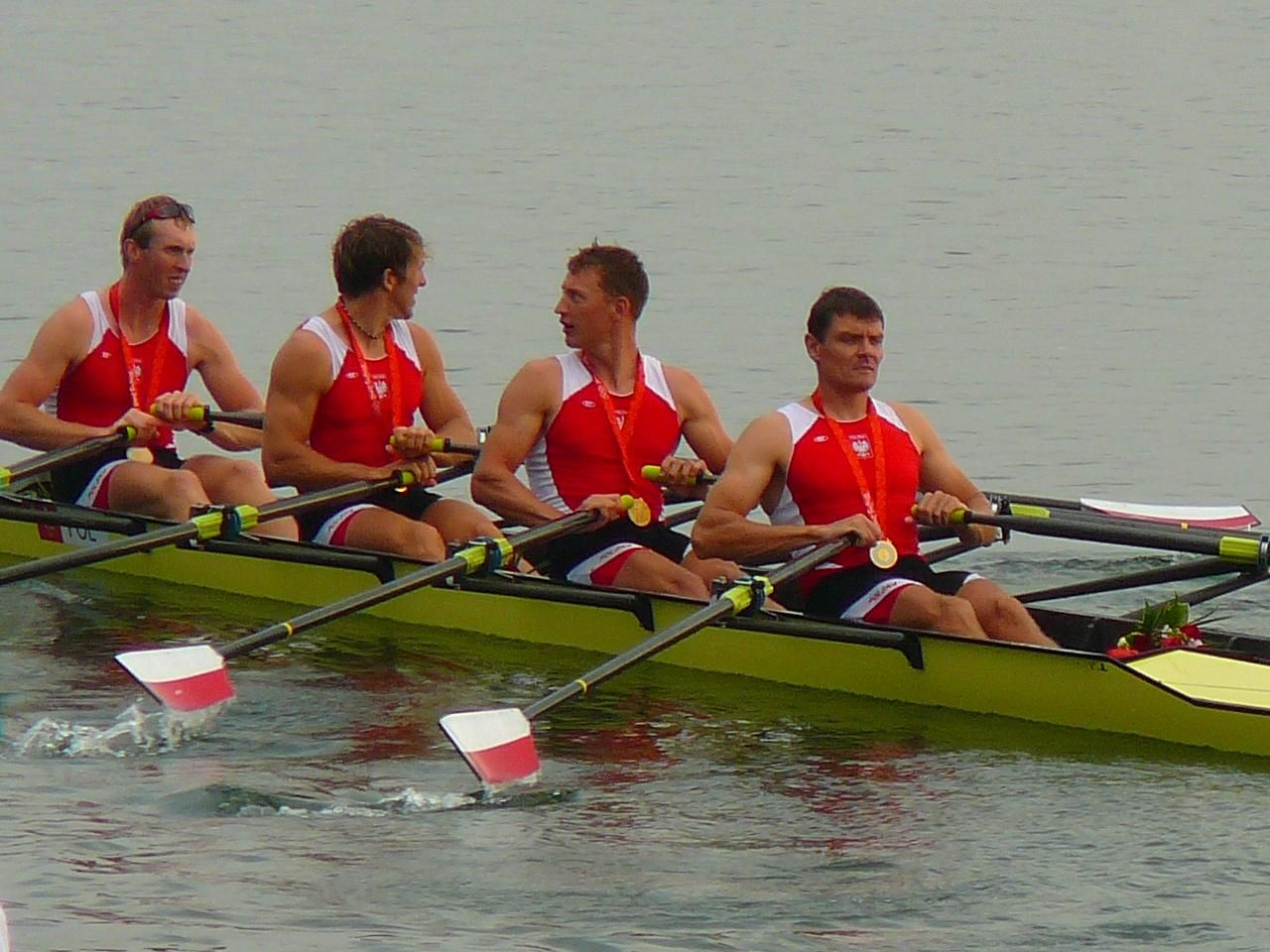 Men's quadruple sculls: Konrad Wasielewski, Marek Kolbowicz, Michał Jeliński, Adam Korol - gold medal - Olympic Games Beijing 2008